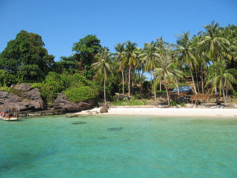 Phu Quoc Southern Islands